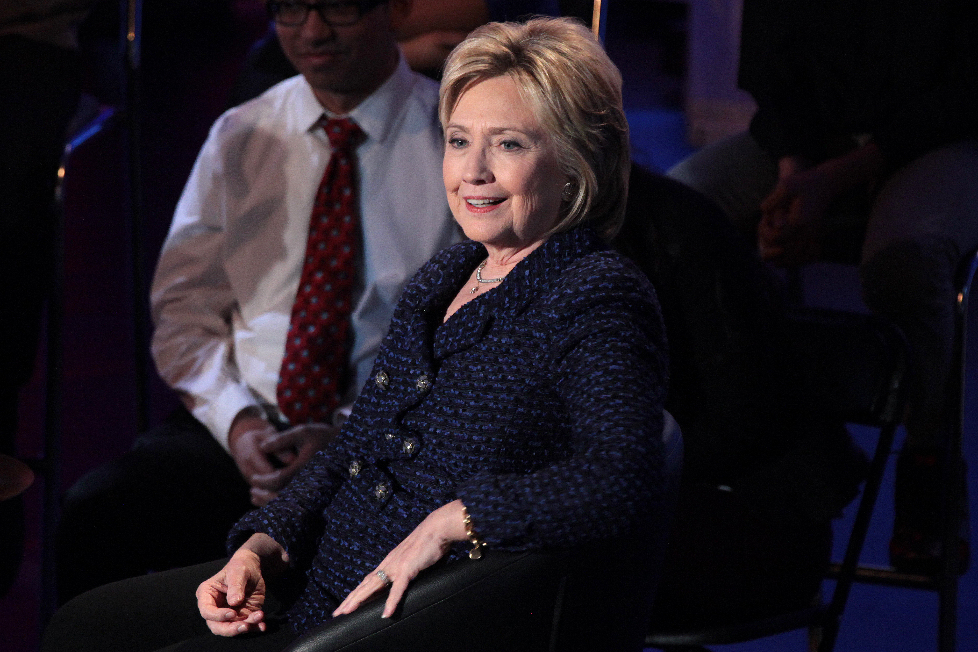 Former Secretary of State Hillary Clinton speaking at the Brown & Black Presidential Forum at Sheslow Auditorium at Drake University in Des Moines, Iowa.